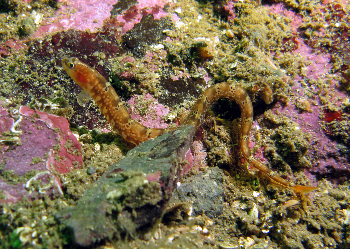 Longfin gunnel Pholis clemensi